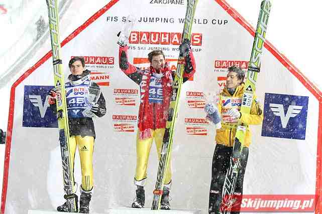 Podium of friday competition during FIS Ski Jumping World Cup in Zakopane, 2012 From left: Richard Freitag, Kamil Stoch and Andreas Kofler